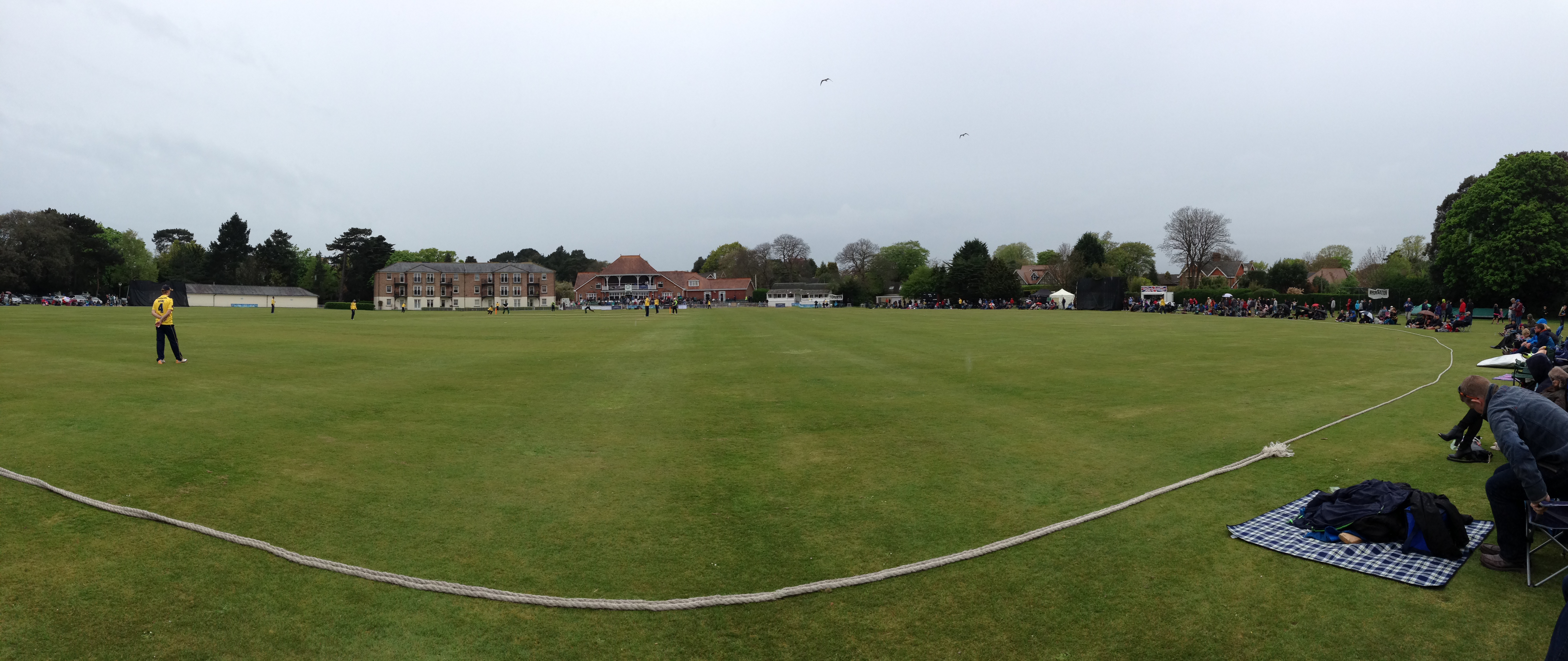 A panorama of Dean Park Cricket Ground looking toward the Cooper Dean Pavilion. The match in progress is between Dorset and Hampshire in a 20-over friendly.